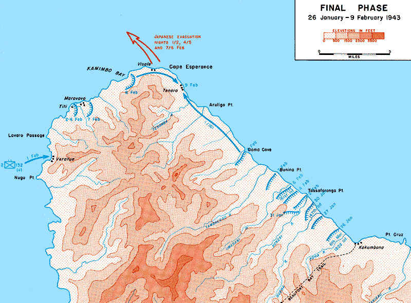 Final actions in Battle of Guadalcanal, Jan 26-Feb 9, 1943